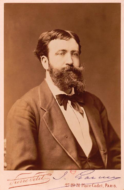 French violinist and conductor Jules Garcin (1830–1896).